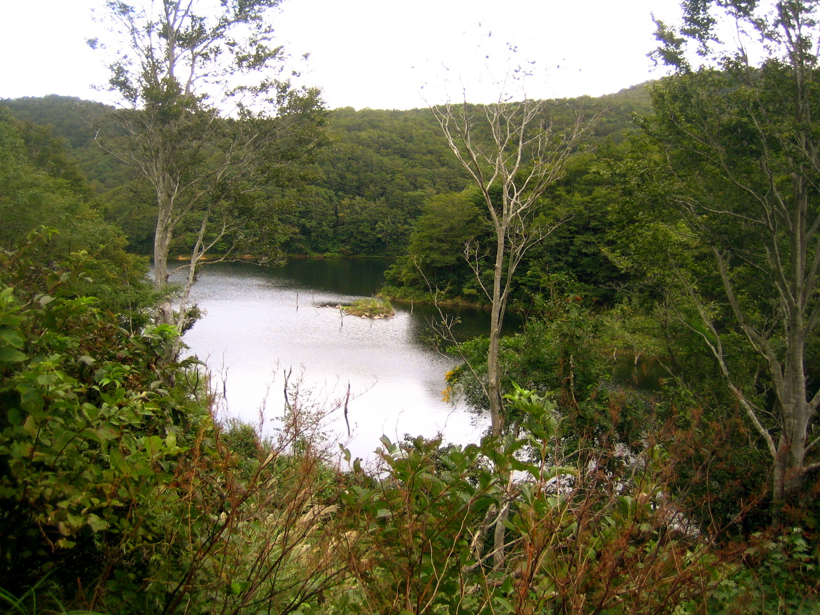 Nabekoshinuma, a pond by Nabekoshi Touge.